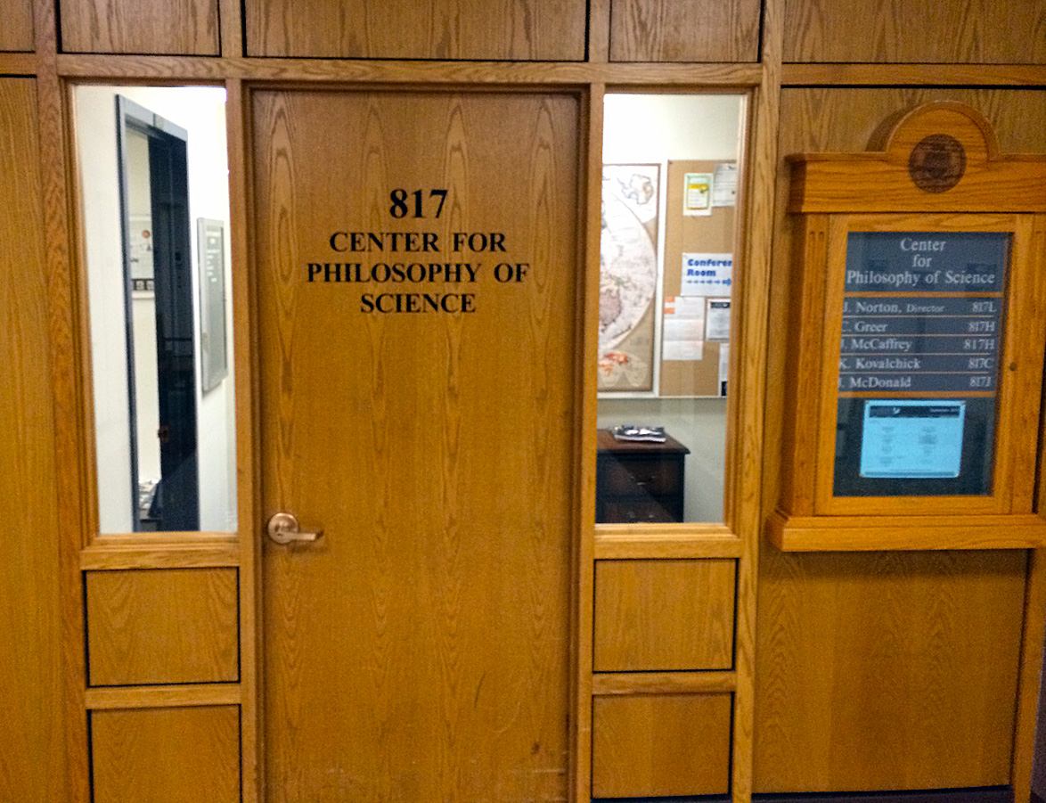 Center for Philosophy of Science on the 8th floor of the Cathedral of Learning on the campus of the University of Pittsburgh